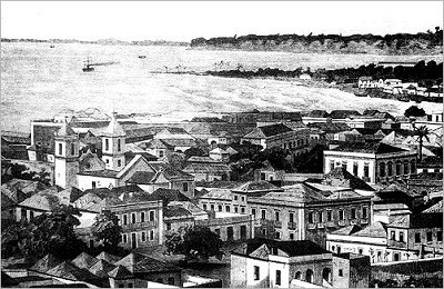 View of Luanda